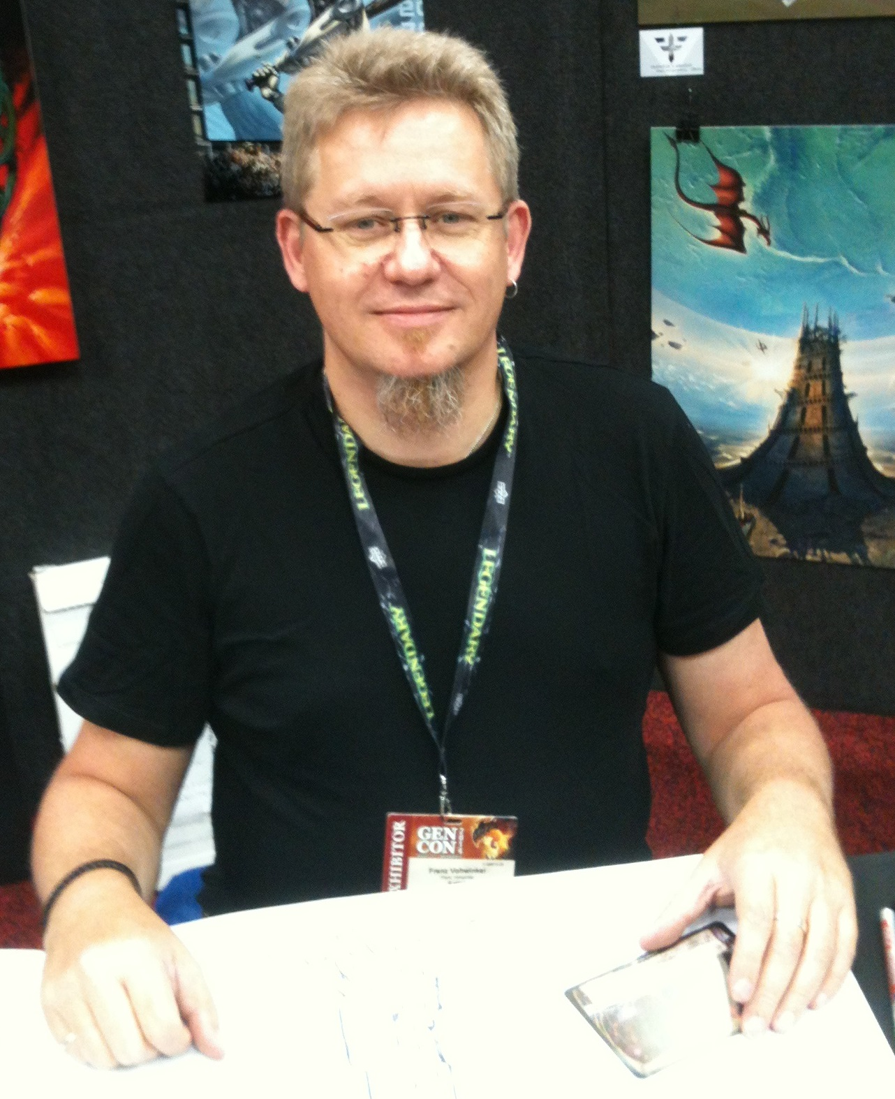 Artist Franz Vohwinkel at Gen Con Indy 2014 on August 15, 2014.